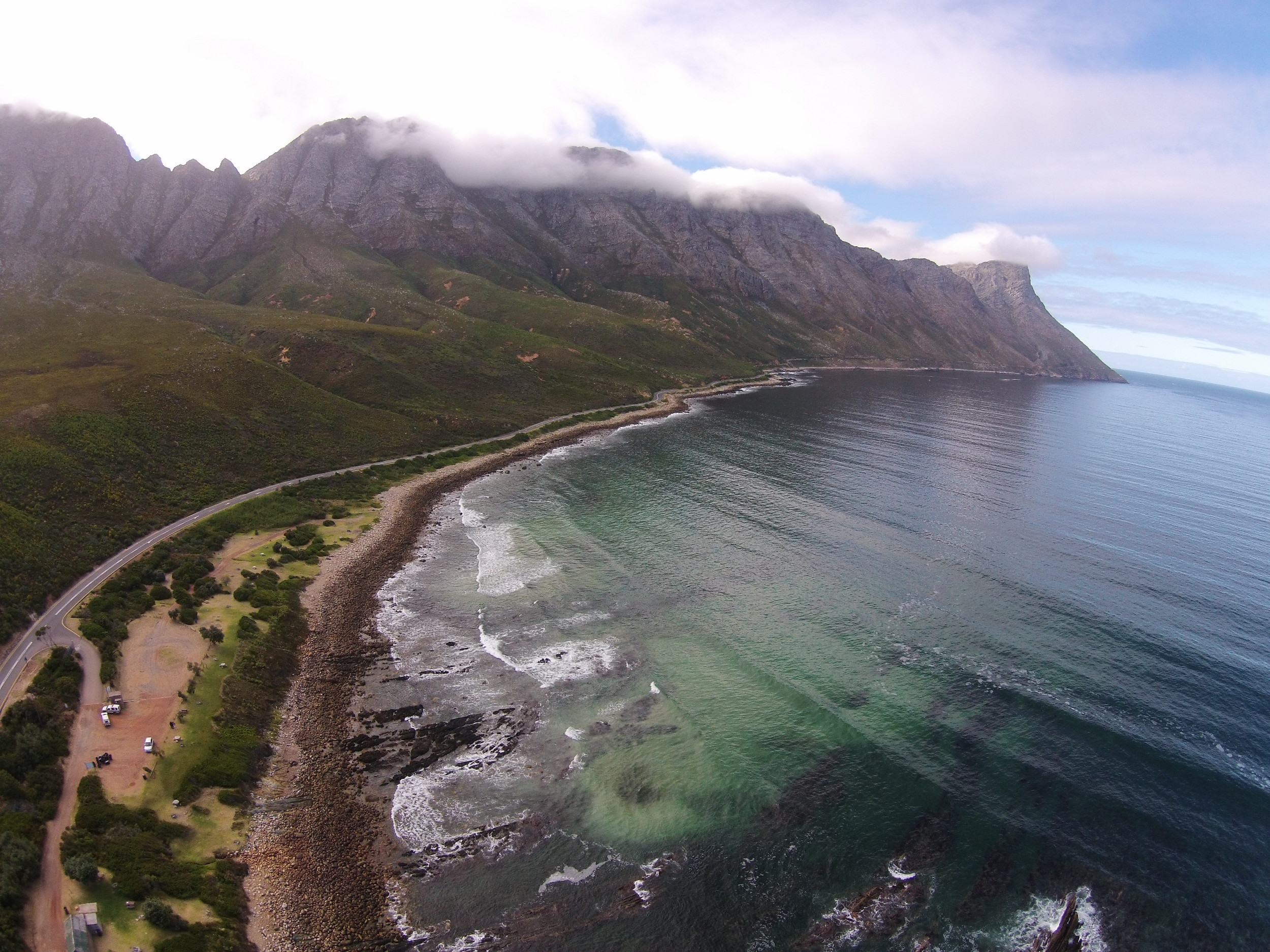 Kogel Bay Resort is located between Gordon’s Bay and Rooi Els and borders Clarens Drive, a 20km scenic route that boasts whale watching opportunities along largely undeveloped parts of the coastline. The resort is situated between high mountains, surrounded by indigenous fynbos and a four kilometre sandy beach and forms part of the Kogel Berg Biosphere Reserve